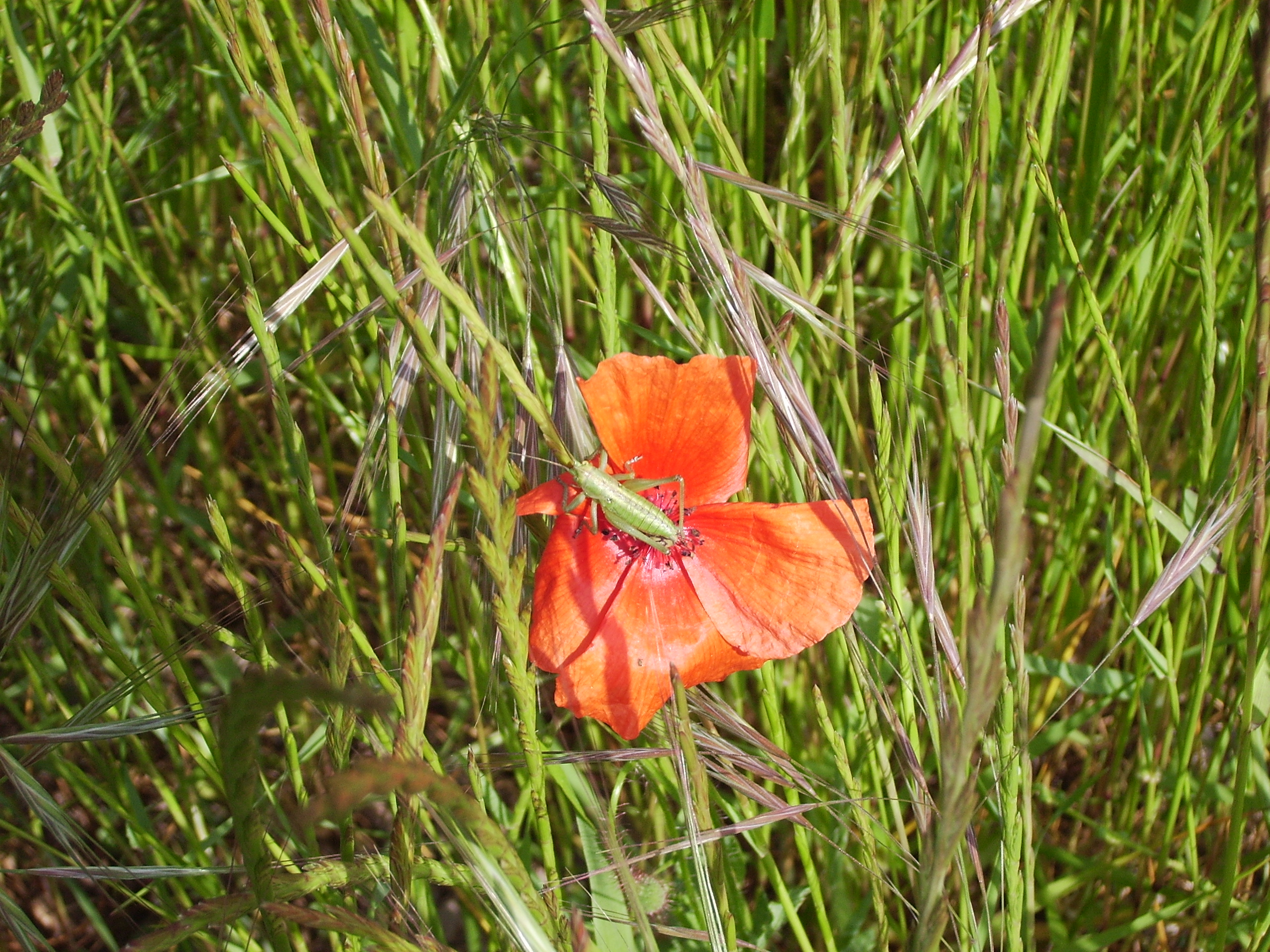 Image:meadow_12_maig__2006_036.jpg unidentificated insect in a meadow in serra de castelltallat,Catalonia